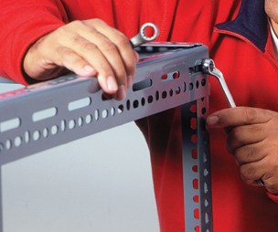 Dexion Slotted Angle showing assembly of nuts and bolts with spanners